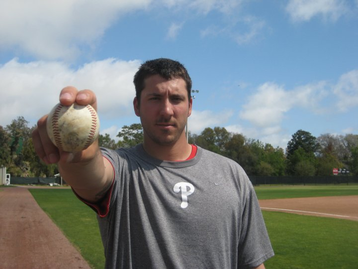 Philippe Aumont at Phillies training camp 2010